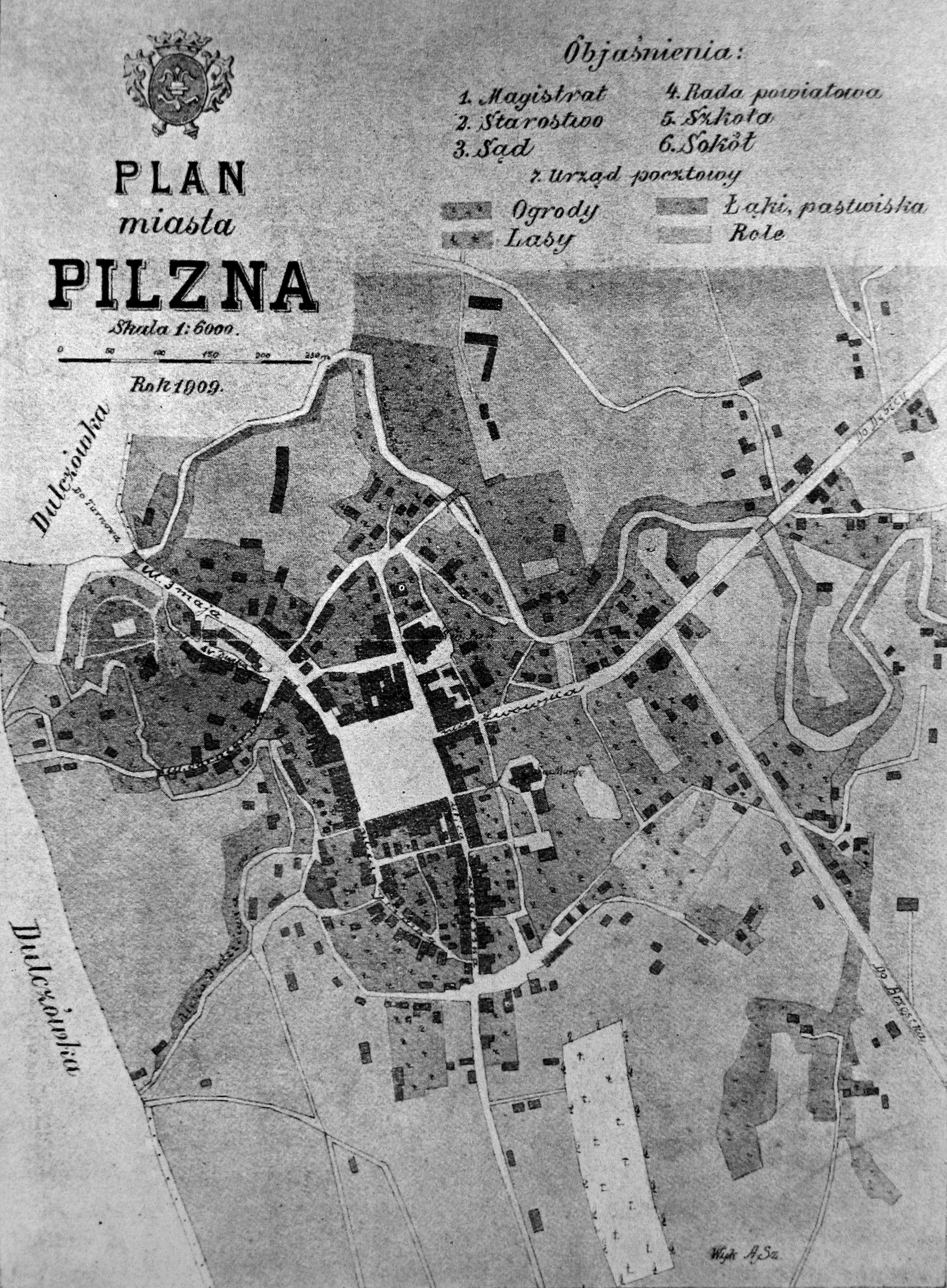 A map of Pilzno, Poland from 1909.